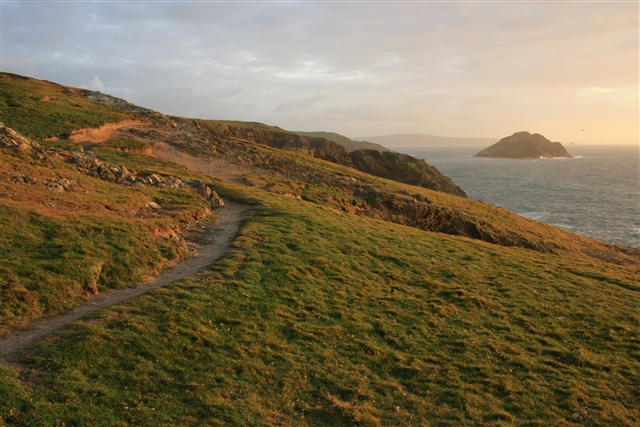 South West Path, Kelsey Head. The footpath rounds Kelsey Head past various landslides. Just visible in the distant haze, to the right of 22707, is (as far as I can tell) 469385.